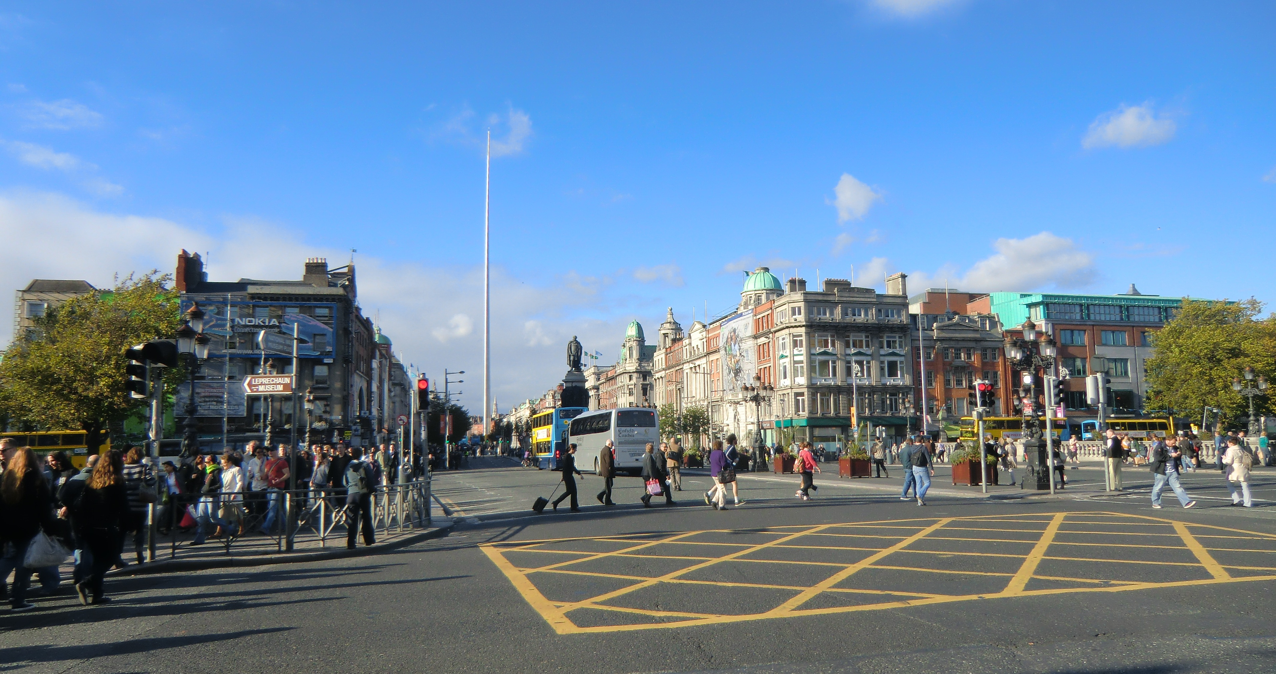 O'Connell Bridge, Dublin, Ireland. View from the south side to the north side with the "Spire of Dublin" in the background.